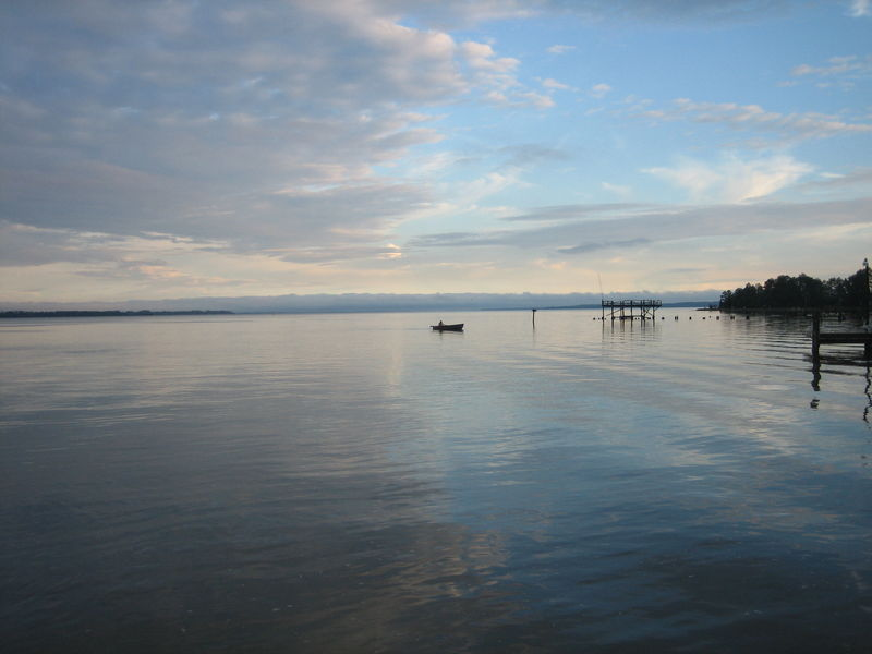 View of the Rappahannock River in Virginia